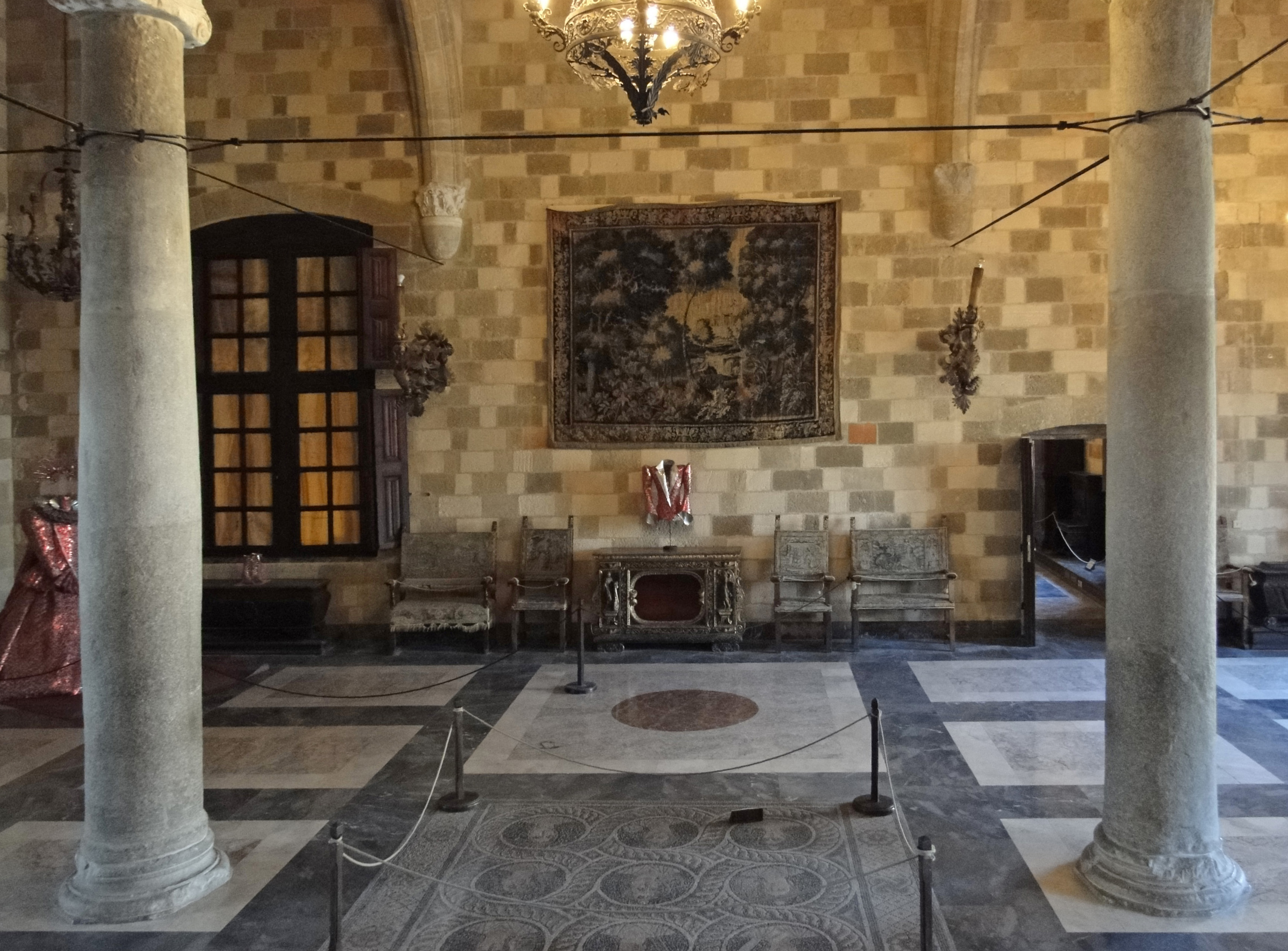 The Chamber of the Nine Muses in the Palace of the Grand Masters, Rhodes, Greece